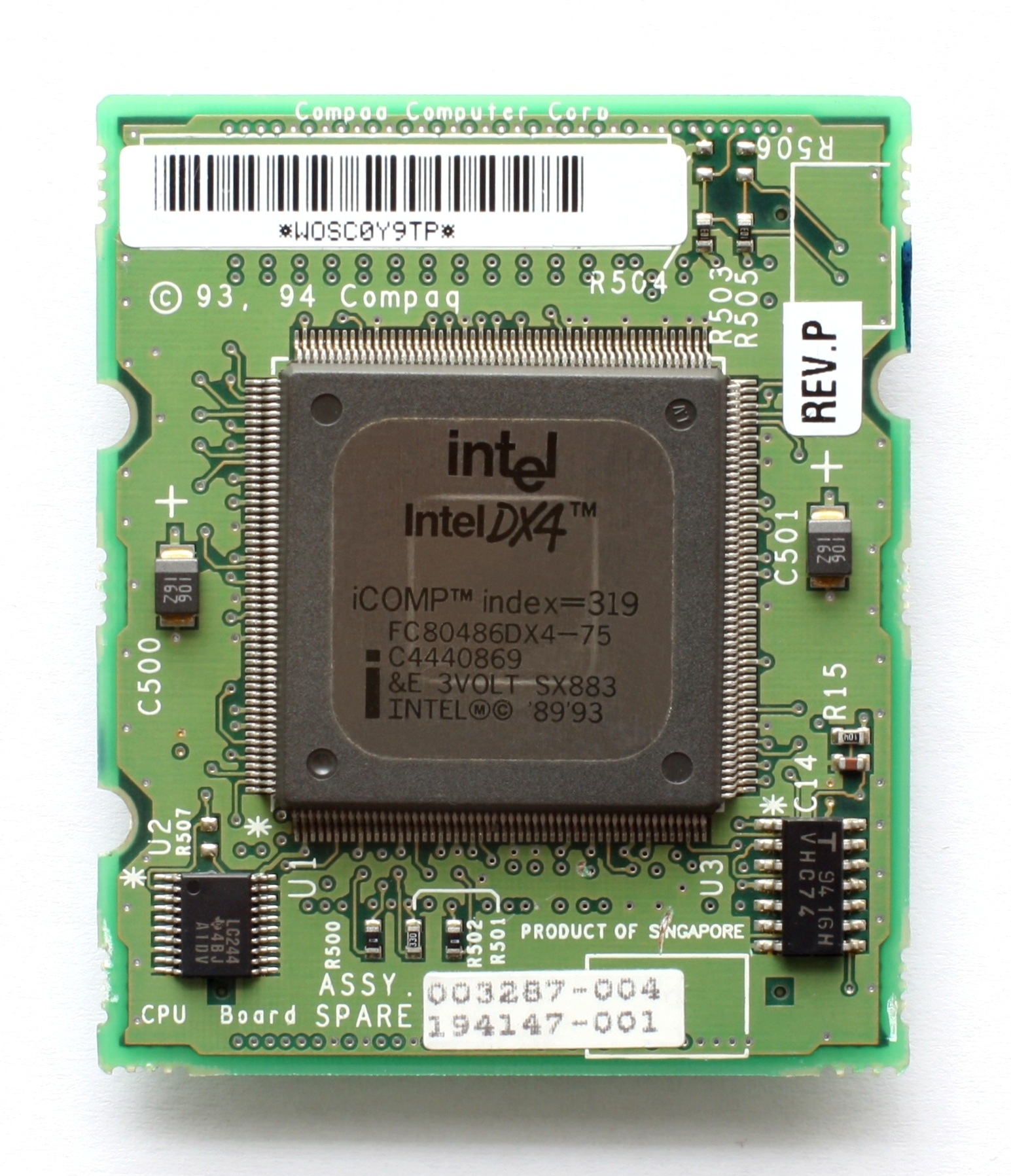 CPU Intel i486DX4-75 PQFP